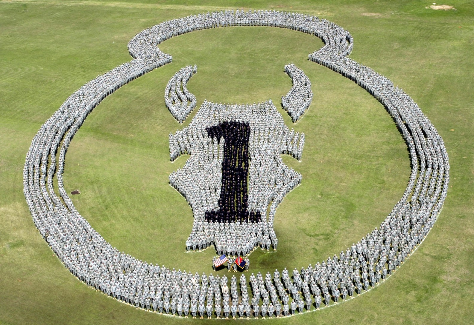 More than 4,000 troops of the 1/34th Brigade Combat Team assemble in special formation during a farewell ceremony at Camp Shelby, Miss., March 16